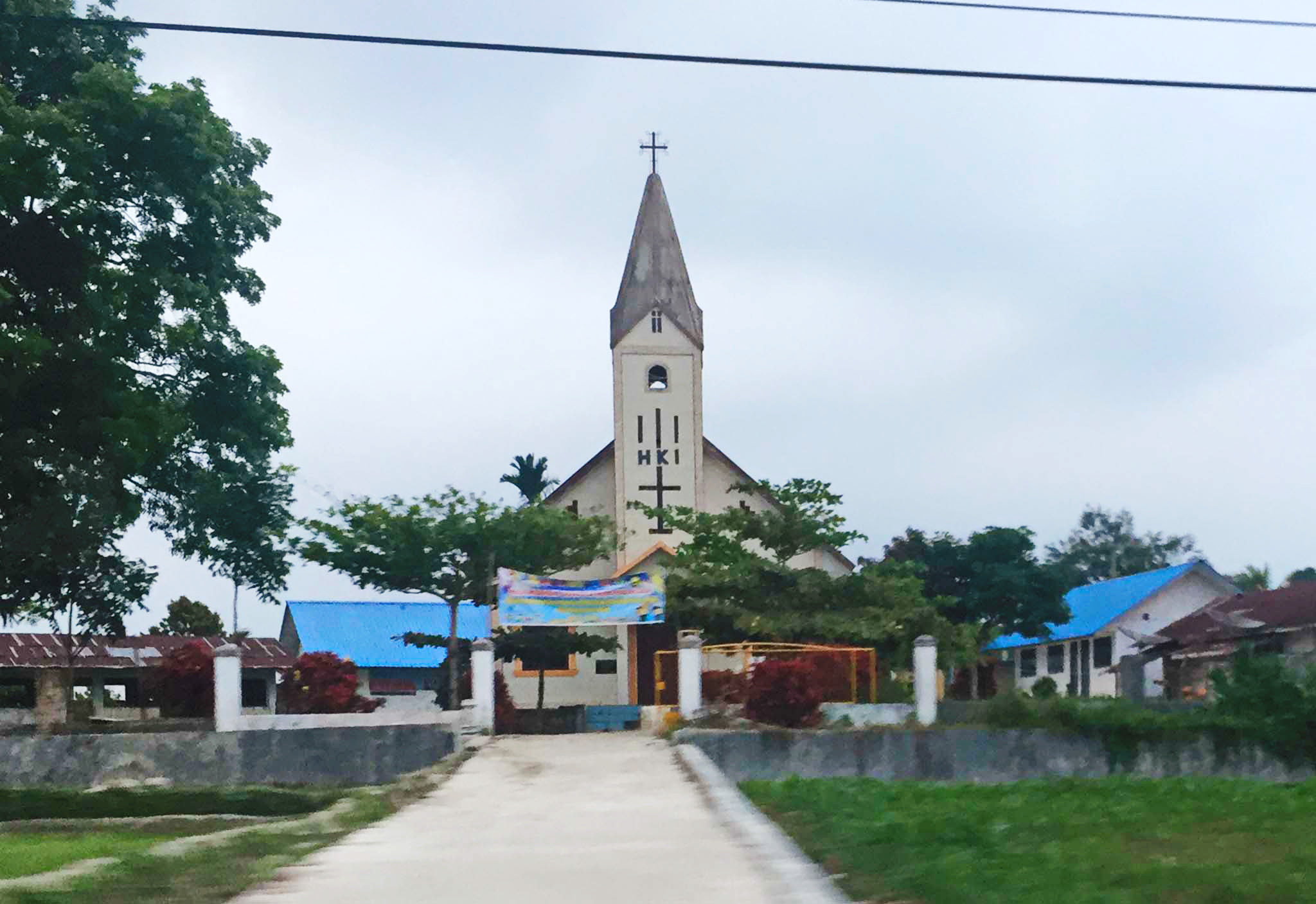 HKI Pulo Siborna, Res. Pulo Siborna Church in Siborna, Panei, Simalungun